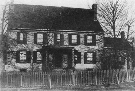 Photo likely taken in late 19th century, the house was demolished in 1894.